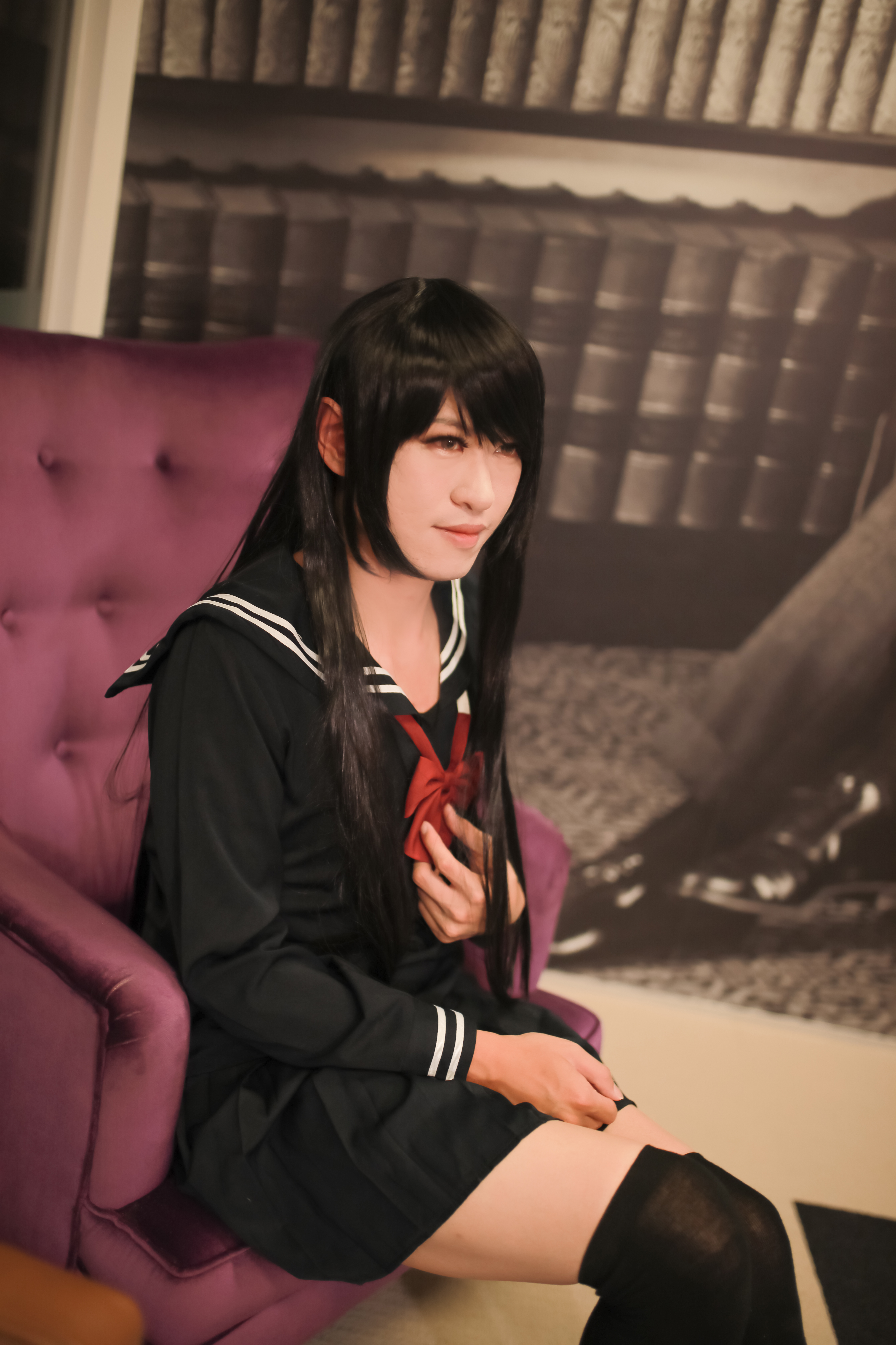 New Zealand crossplayer 結佳梨Yukari, JK original character